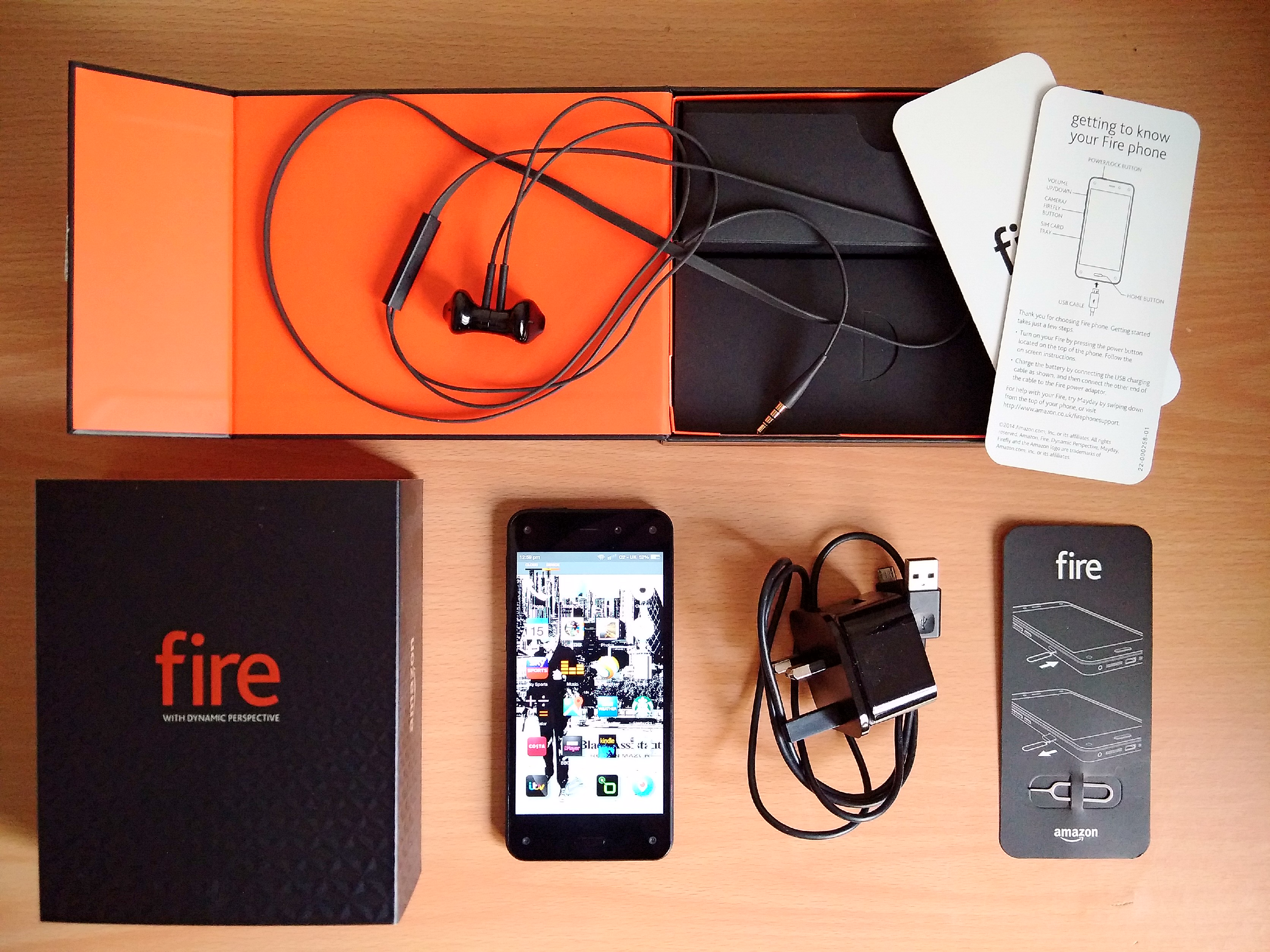 Amazon Fire Phone: unboxed 32gb British market full set, 2015.